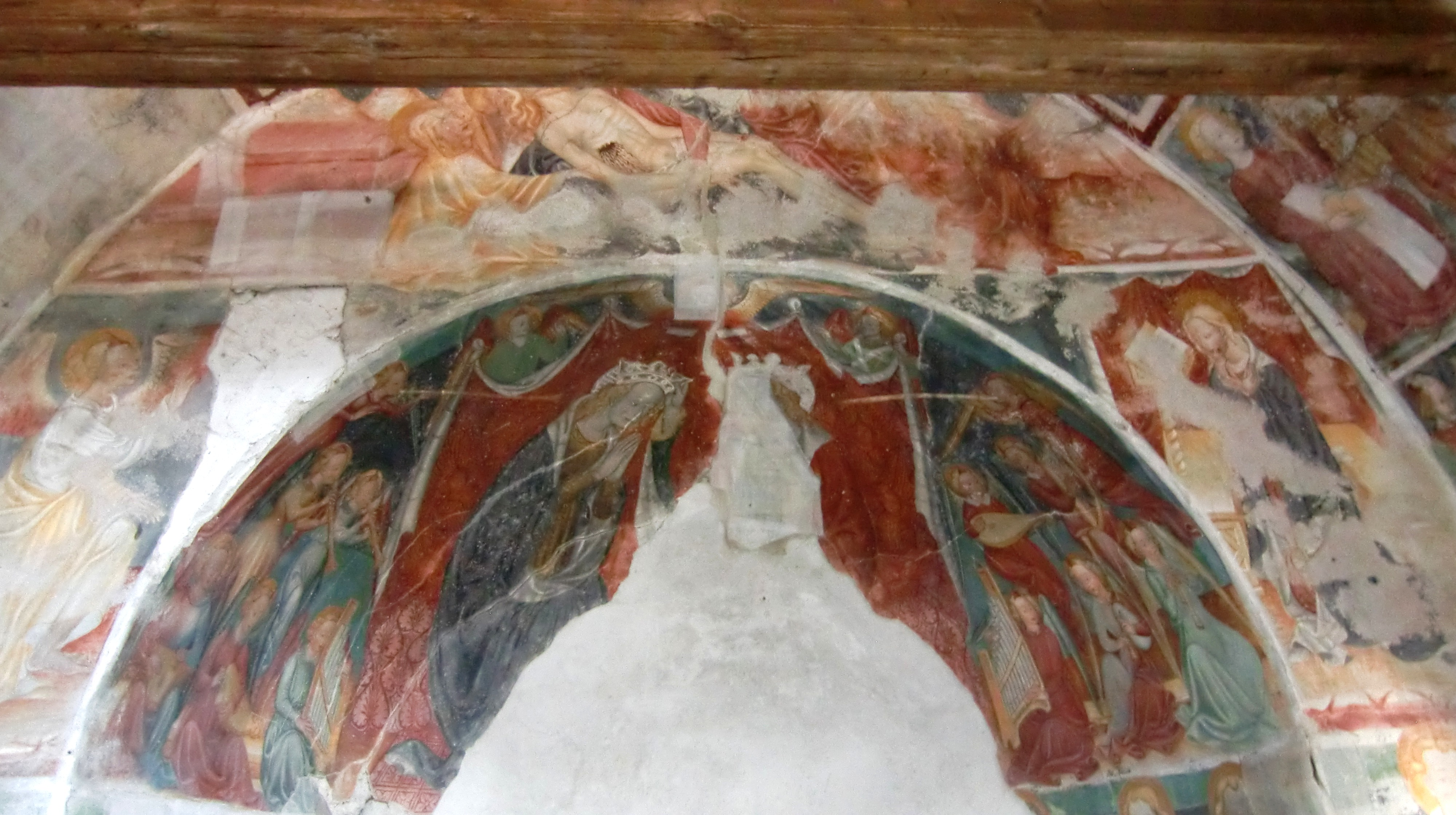 Johannes de Campo, frescoes of the apse, XV century, Oratorio di San Pantaleone, Boccioleto (VC), Italy